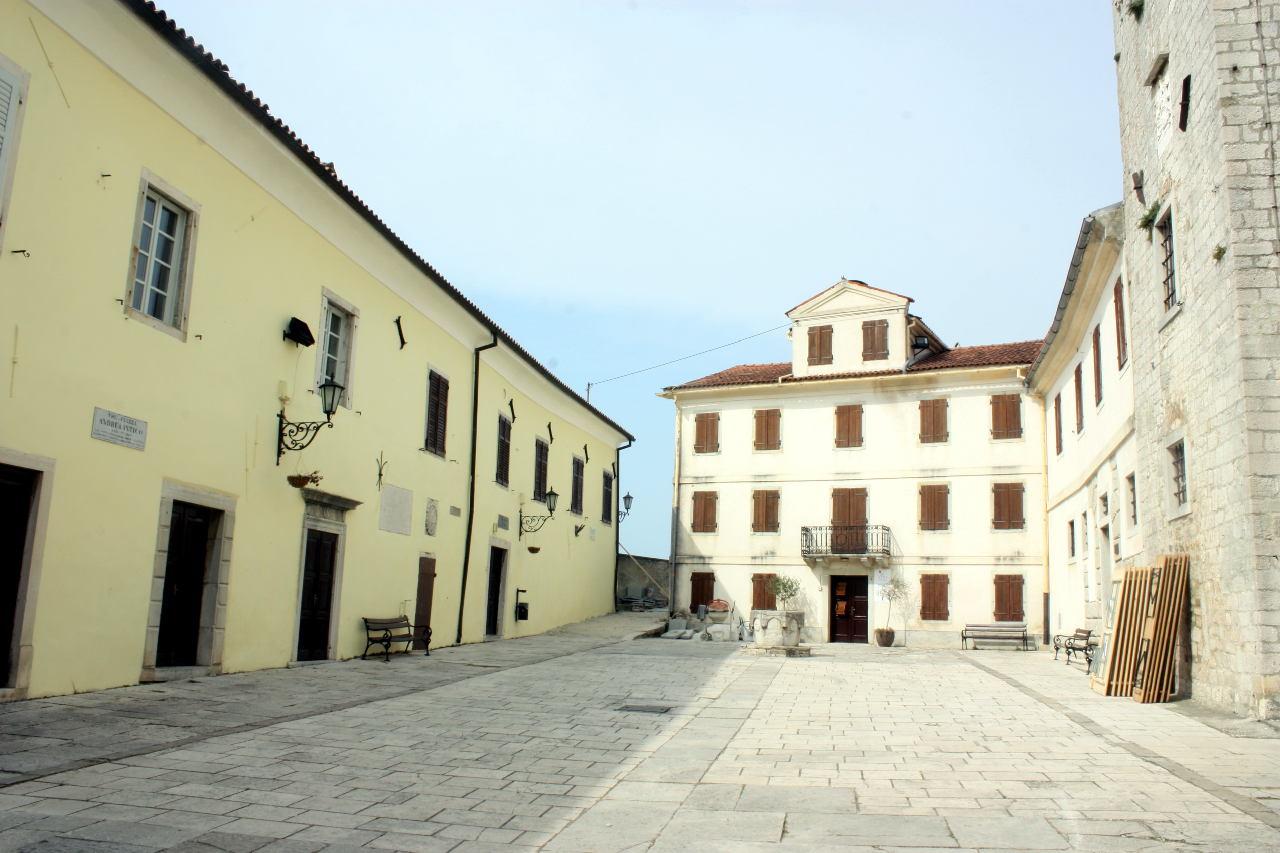 Motovun, the square "trg Andrea Antico"